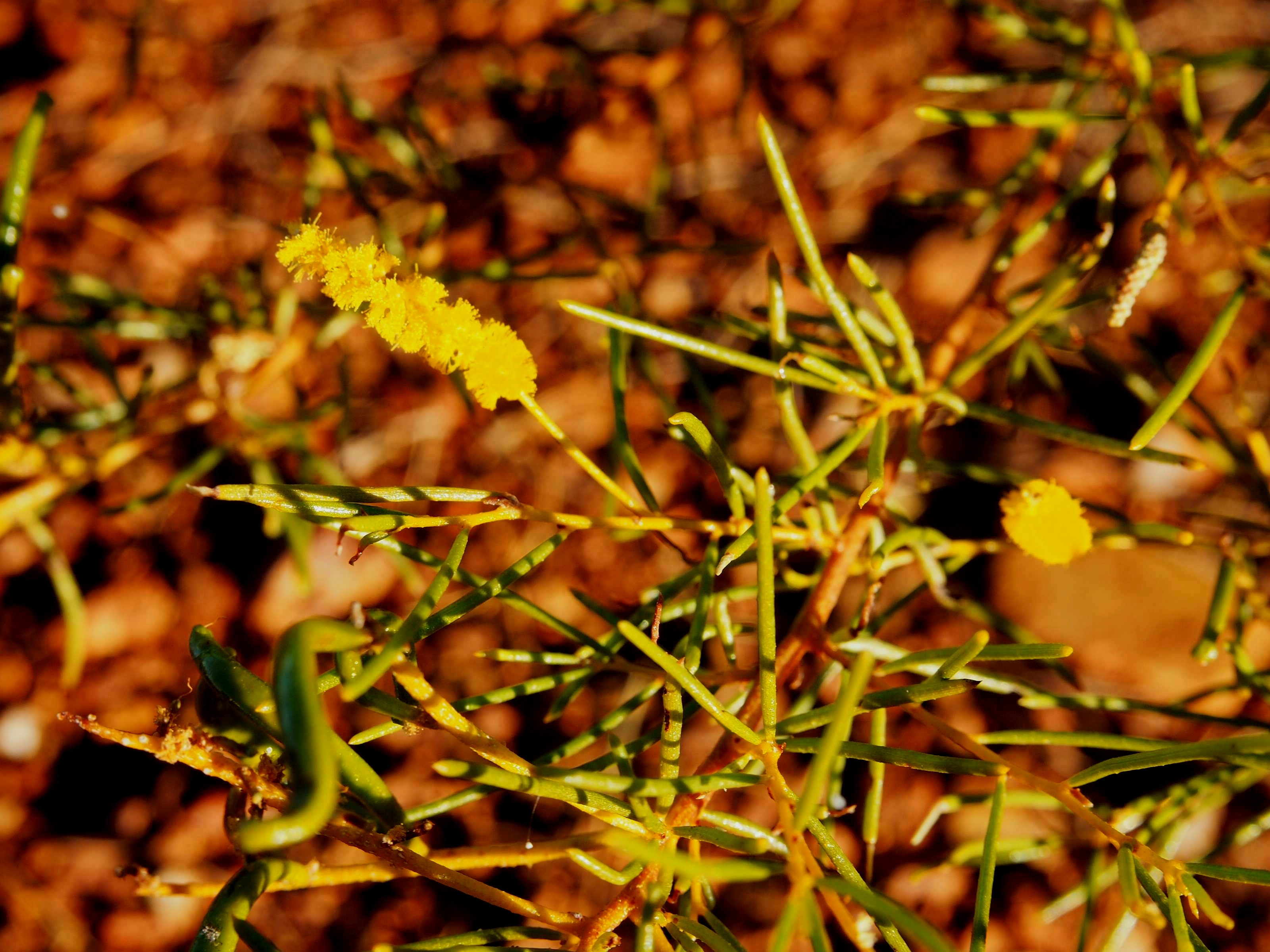 Acacia hilliana flowers